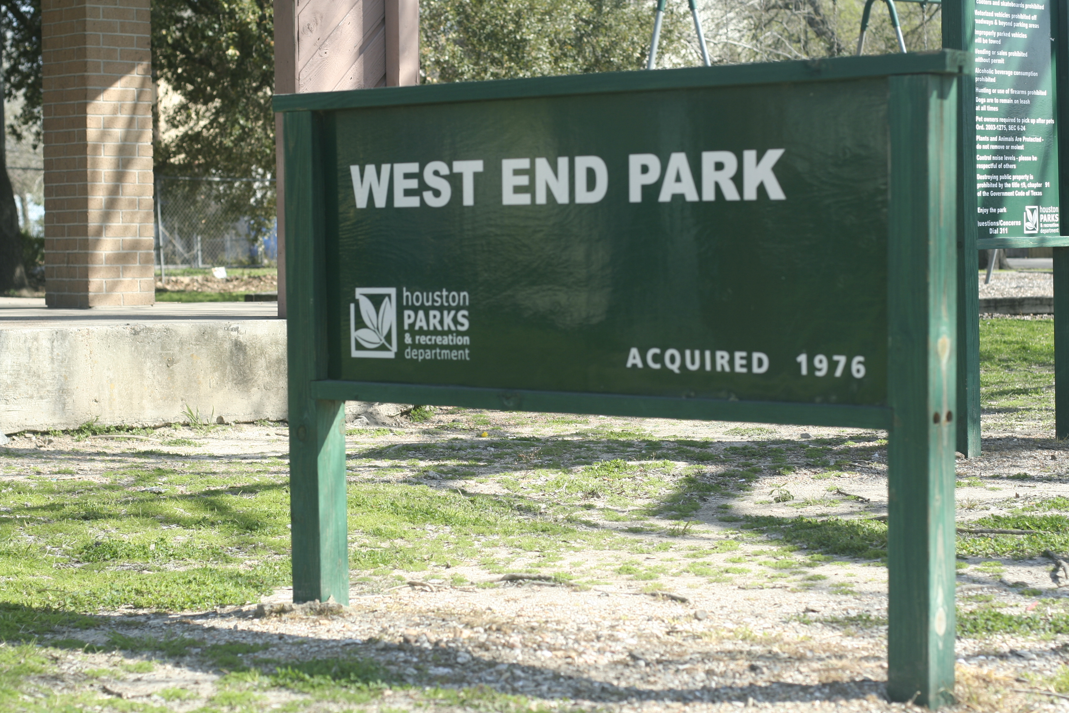 Image of the Houston West End Park Sign, in the Houston West End Neighborhood